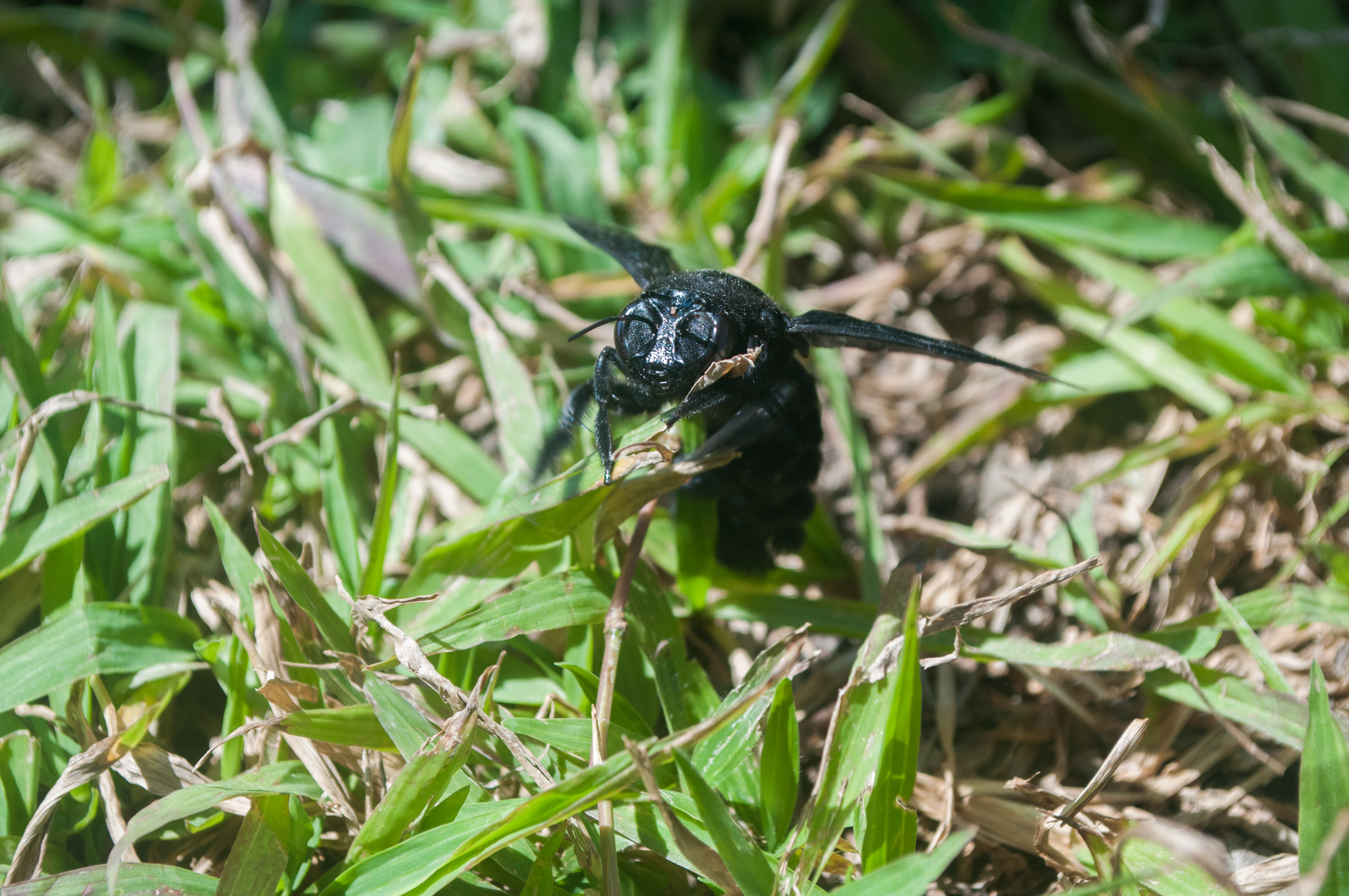 Avejorro grande